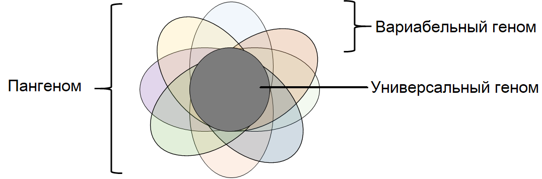 Pangenome structure visualized as Venn diagram.